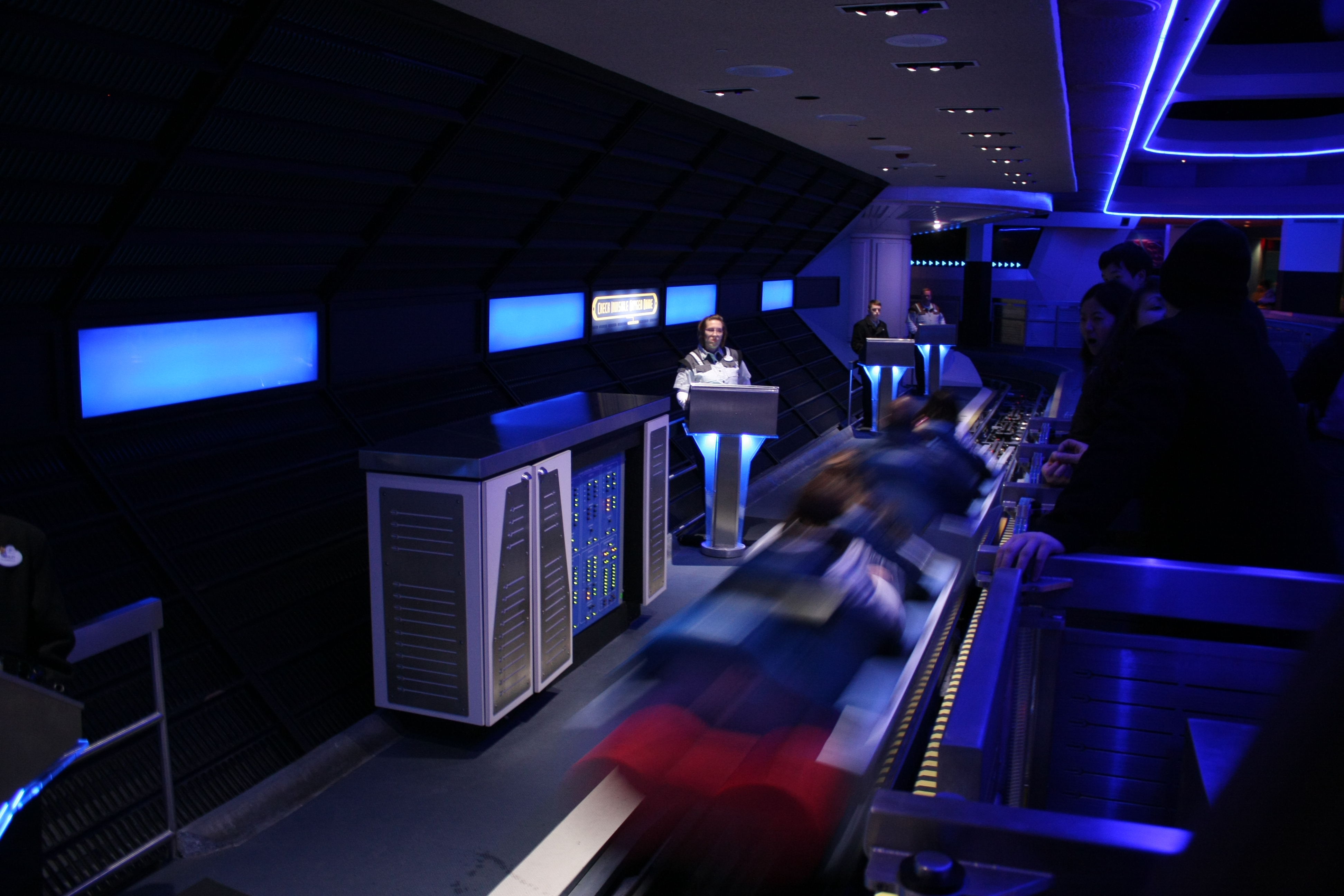 Space Mountain roller coaster at Walt Disney World Magic Kingdom Loading area after 2009 refurbishment, Omega side The architectural work depicted in this photograph may be covered under United States copyright law (17 USC 120(a)), which states that architectural works completed after December 1, 1990 are protected. However, architectural copyright in the United States does not include the right to prevent the making, distributing, or public display of pictures, paintings, photographs, or other pictorial representations of the work. See Commons:Freedom of Panorama#United States for more information. This law only applies to architectural works (such as buildings or other structures) and not other forms of 3D or 2D artwork such as sculptures, paintings, or posters. Images of these artworks taken in the US must be deleted unless they are in the public domain, or their presence is incidental.